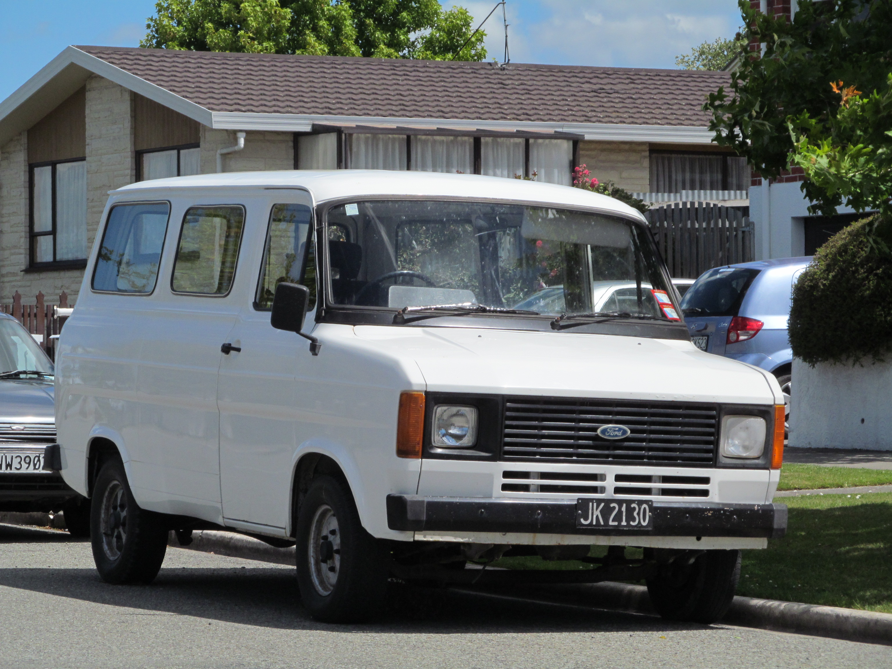 This was for sale in Christchurch recently, which I only realised upon returning home and checking a few records. It is now running a Nissan diesel engine from memory. Certainly the cleanest Transit I've seen in a long while!